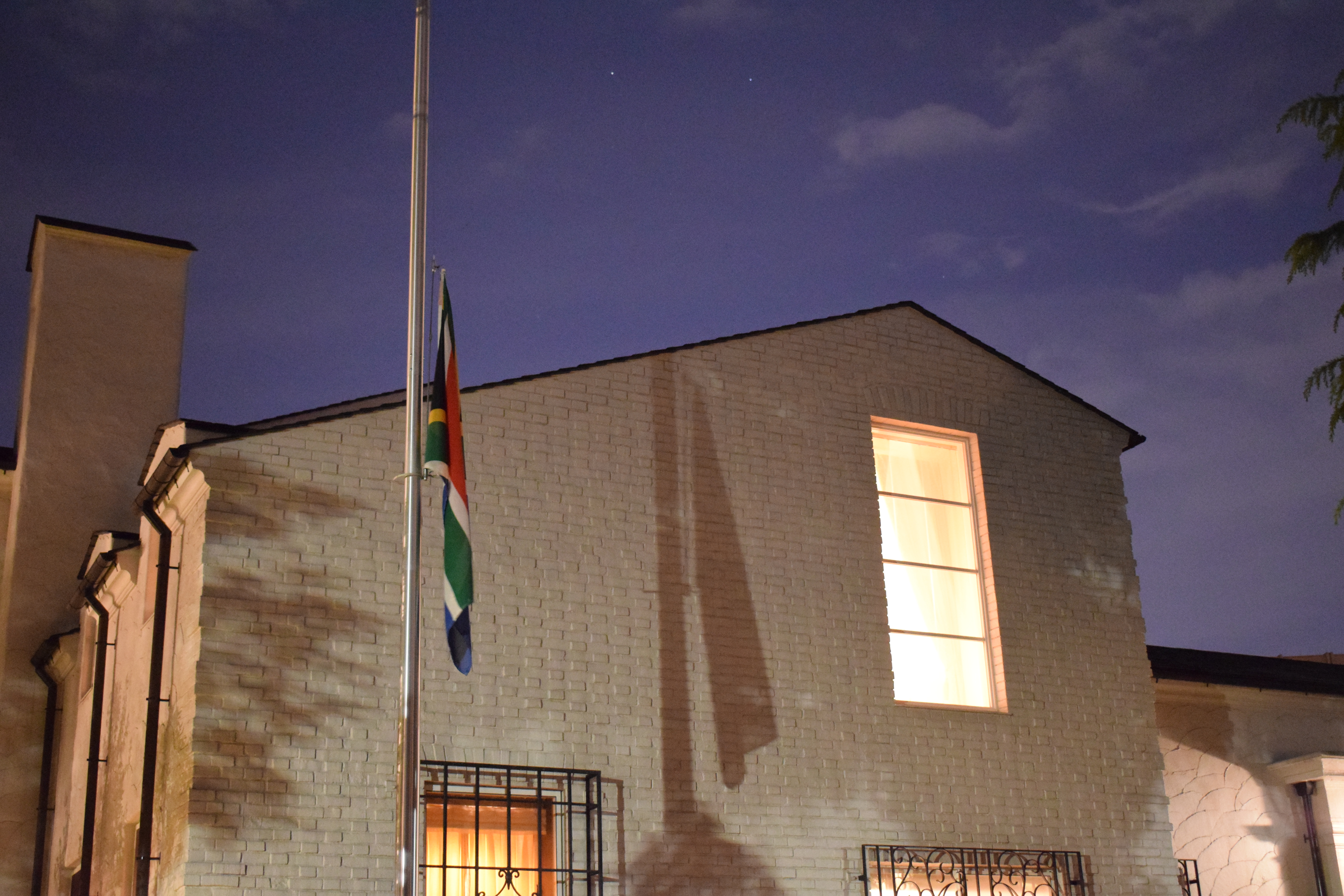 Presumably to mourn Winnie Mandela's death